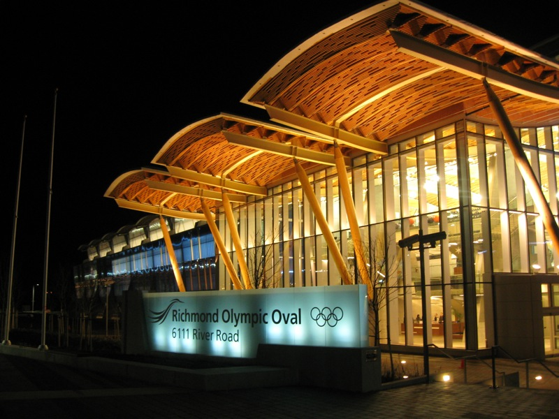 Front view the Richmond Olympic Oval, Richmond, Canada